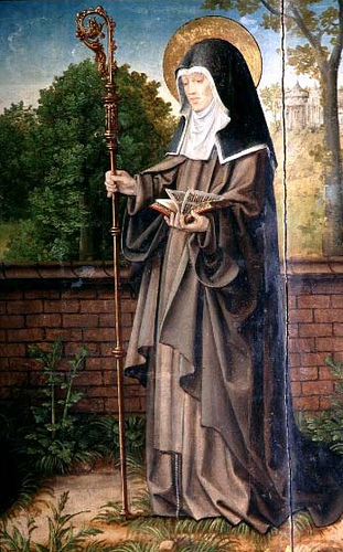 Saint Agnes of Assisi, Flemish painting, 15th cent.